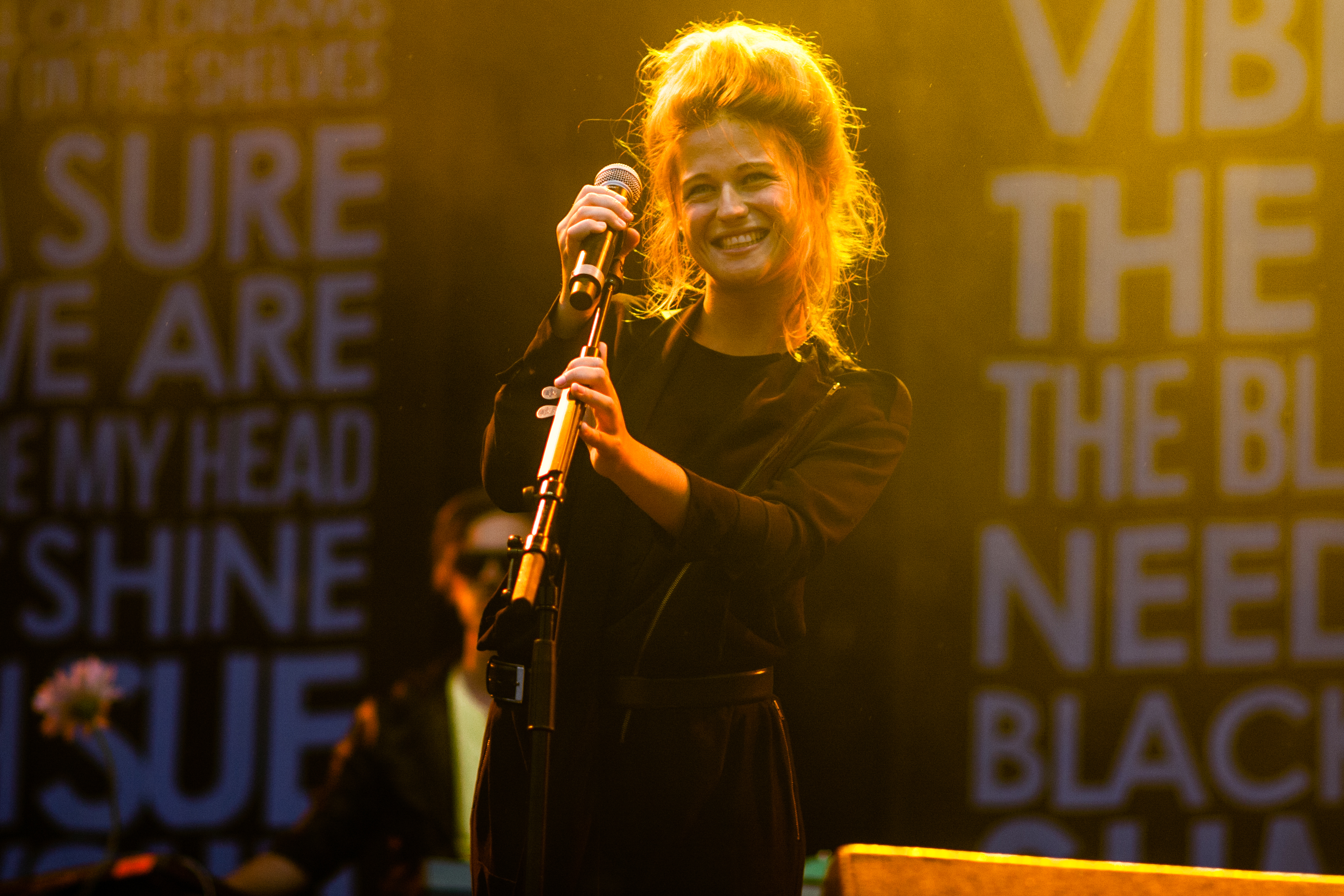 Follow me on facebook Twitter : @didyPhotography All the photographies I've made are now under CC0 (Creative Commons Zero) CC0 - learn more To the extent possible under law, Eddy BERTHIER has waived all copyright and related or neighboring rights to Selah Sue @ Dour 2012. This work is published from: France.